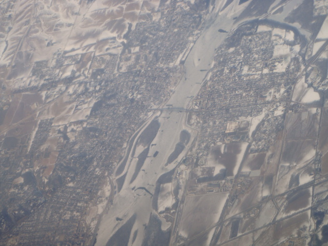 Clinton, Iowa and Fulton, Illinois as seen from the airplane